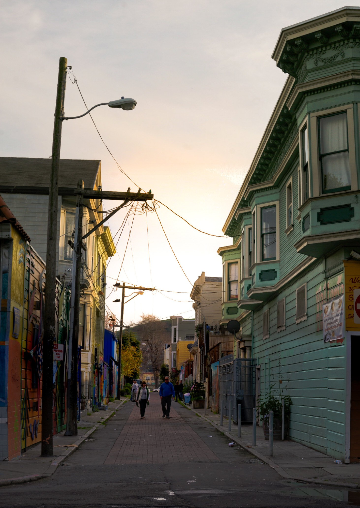 Balmy Alley at Dusk